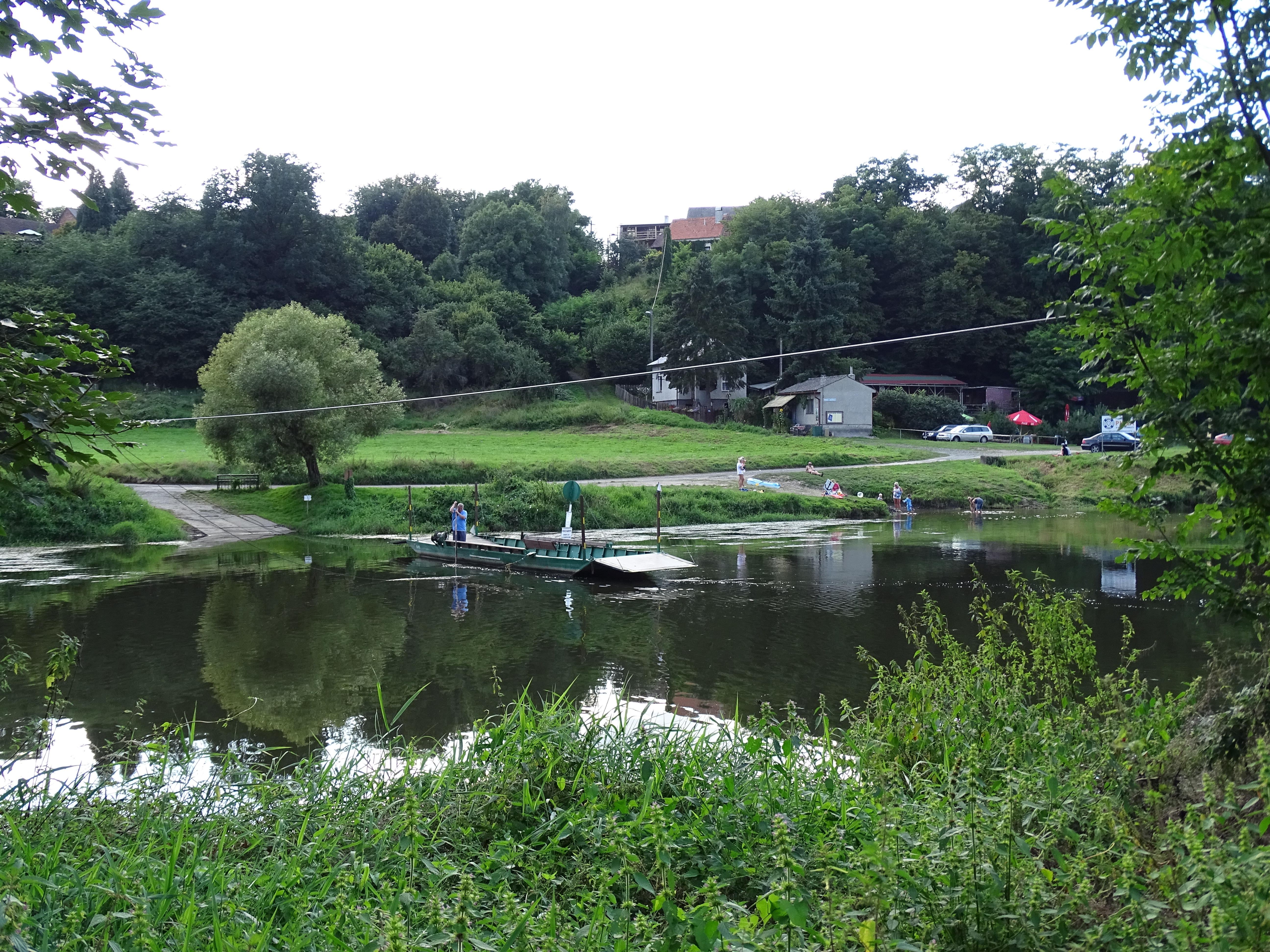 Břasy-Kříše, Rokycany District and Nadryby, Plzeň-North District, Plzeň Region, the Czech Republic. Nadryby ferry.